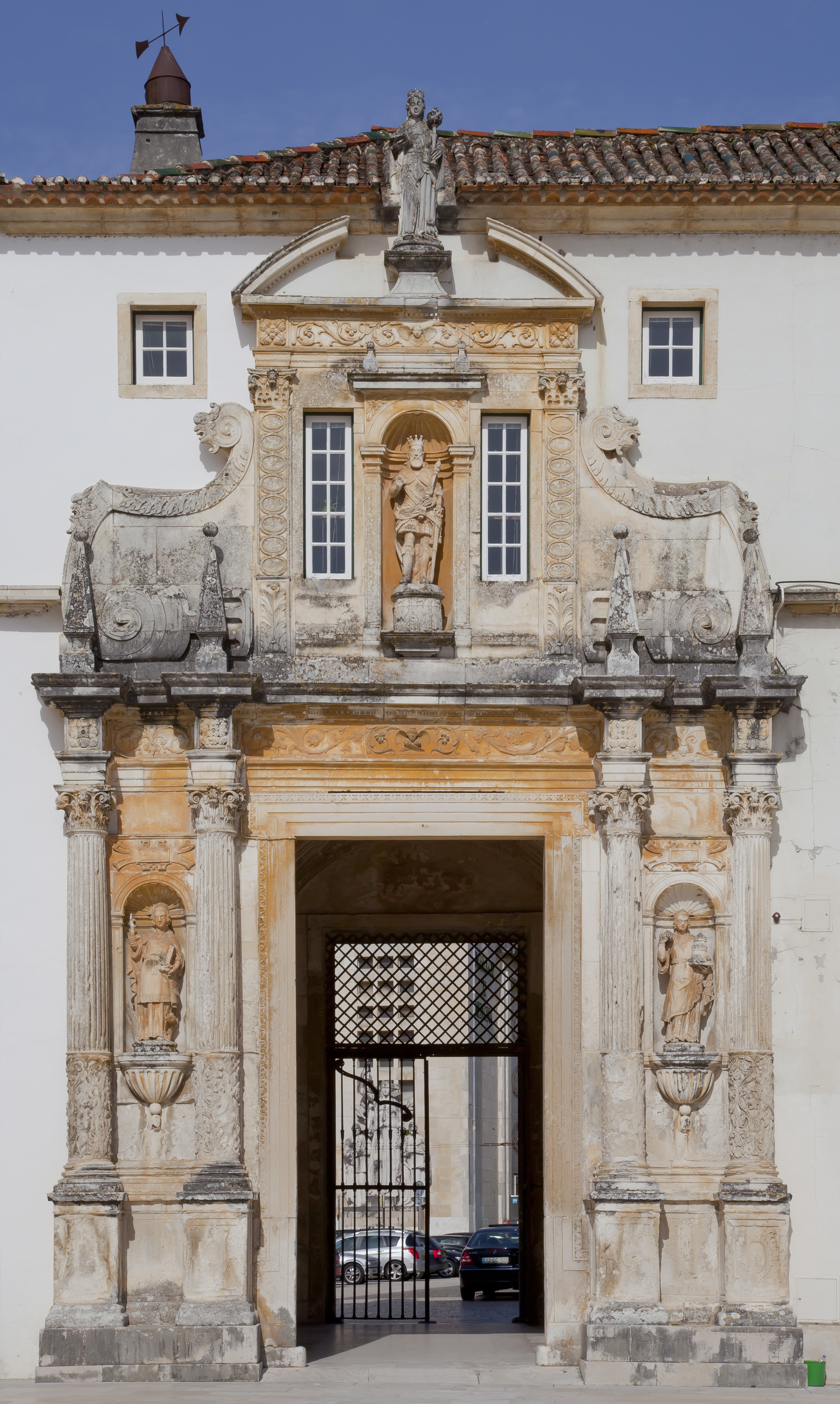 Square of the University of Coimbra, Portugal